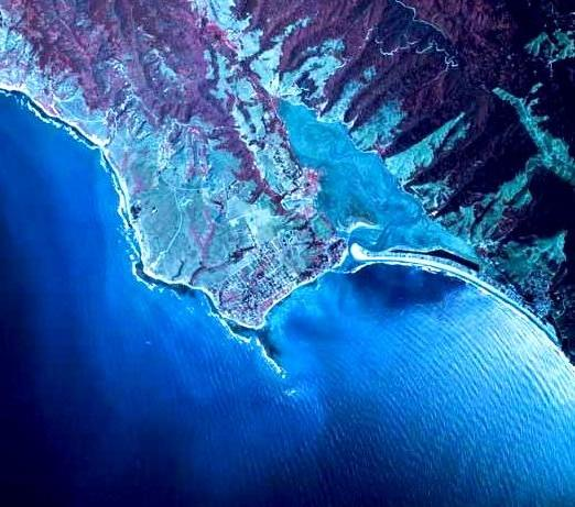 Bolinas peninsula, 1982, from 40,000 feet (12,200 meters). The National High Altitude Photography (NHAP) program, which was operated from 1980-1989, was coordinated by the U.S. Geological Survey as an interagency project to eliminate duplicate photography in various Government programs.